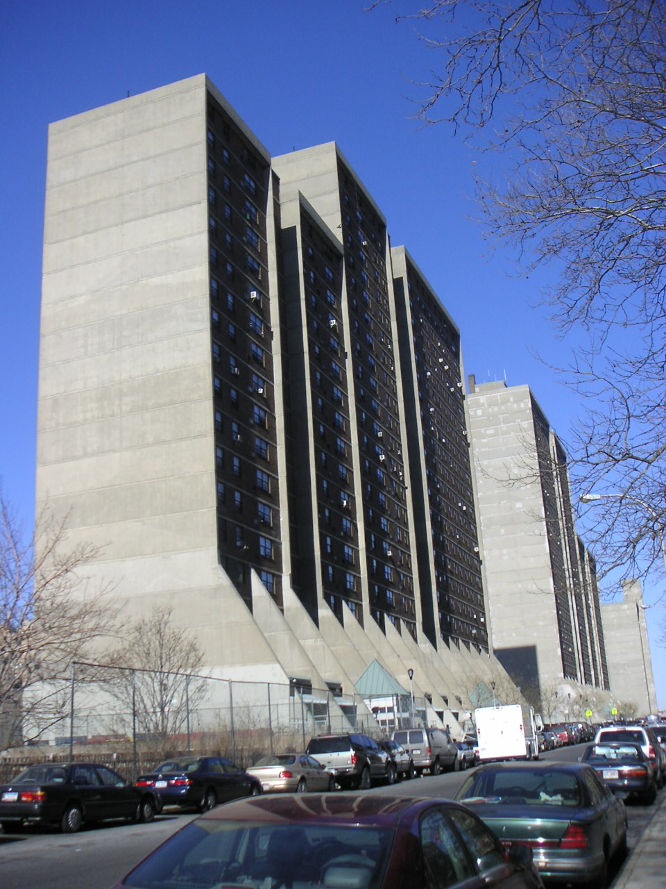 Looking northeast up Park Avenue at Public Housing in Melrose, the Bronx.